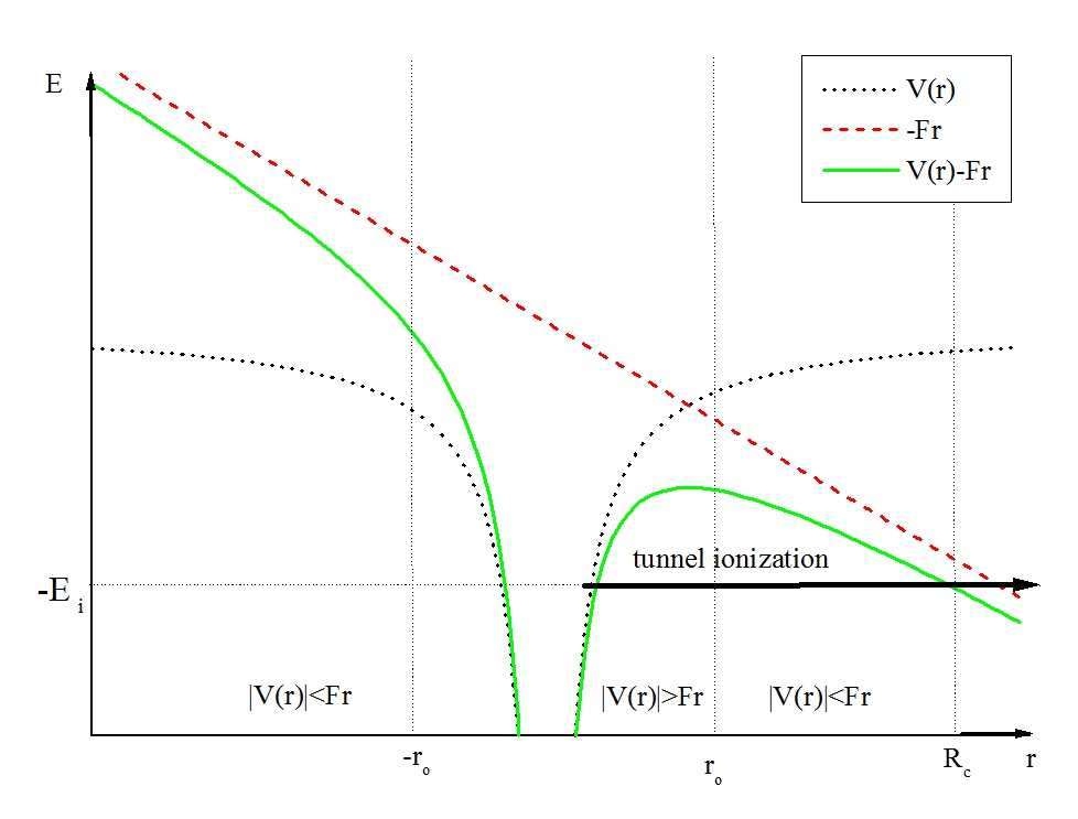 For the ionization page